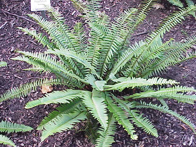 Species: 'Polystichum munitum' Family: Aspidiaceae Image No. 2